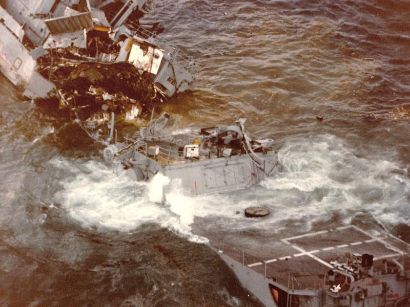 The U.S. Navy destroyer USS Jonas Ingram (DD-938) sinking on 23 July 1988, during the first live fire test of the Mark 48 ADCAP torpedo.